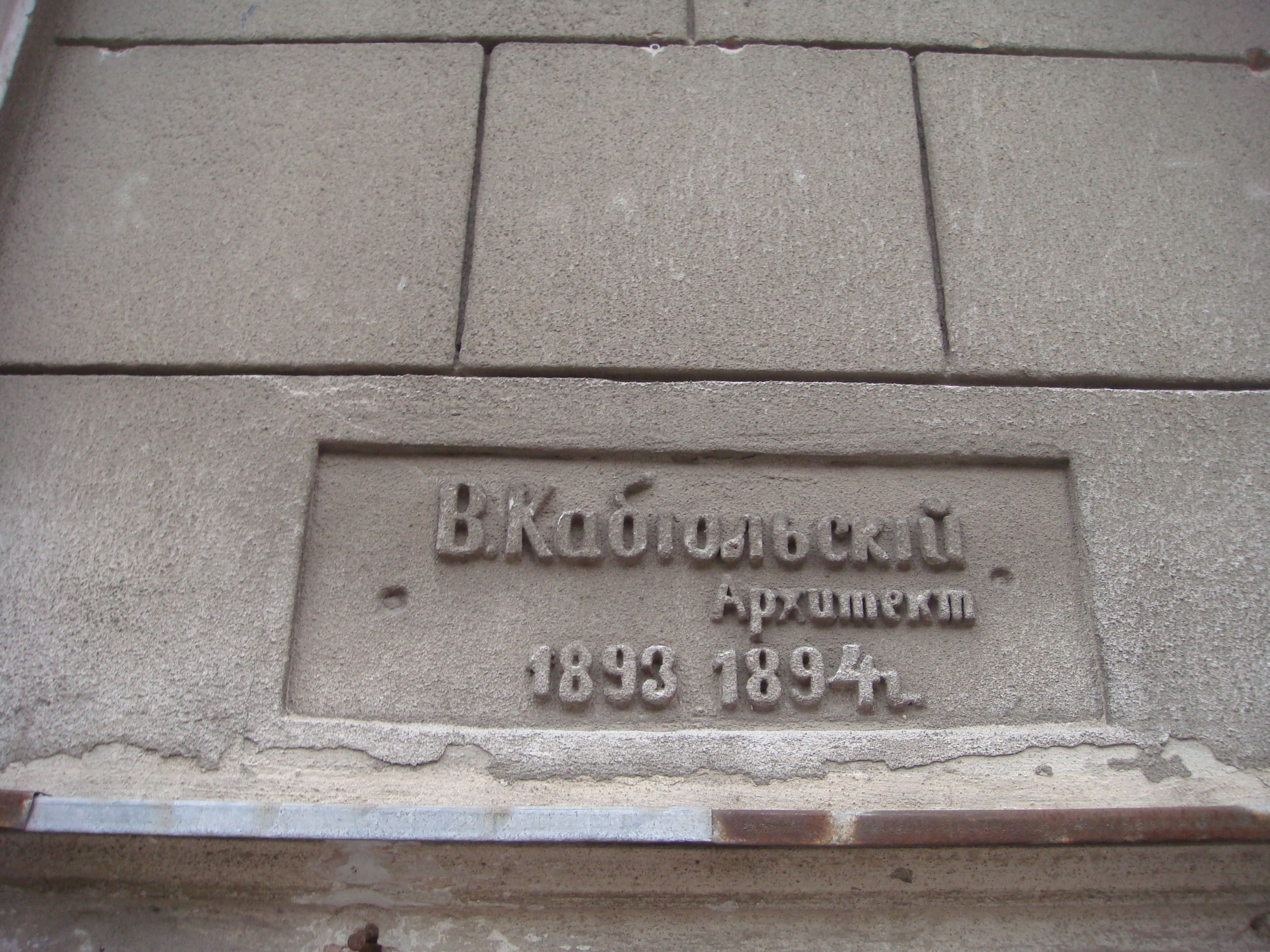 No 3 Sabaneev most street, Odessa. Palace of Pommer. Constructed 1892-1896, architectors Shevelev & Kabiol'sky